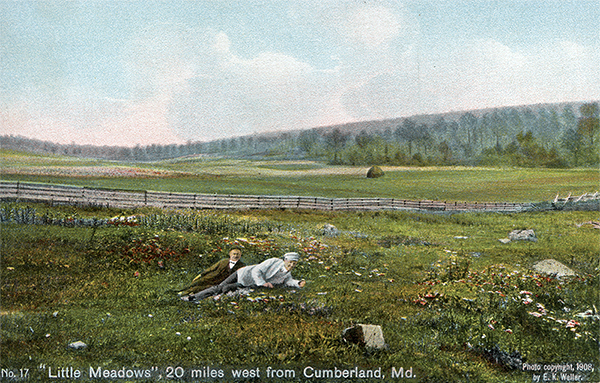 The Little Meadows Farm of over 1200 acres is now owned by D. F. Kuykendall, Cumberland, Md. This is the place of the fourth encampment. On June 18, 1755, the entire force had reached "Little Meadows." Here, at a council of war, it was determined that the General and Colonel Halket, with a detachment of the best men of the two regiments, being in all about 1400, lightly encumbered, should move forward. Colonel Dunbar with the residue, about 900, and the heavy baggage, stores, and artillery was to advance by "Slow and easy marches."